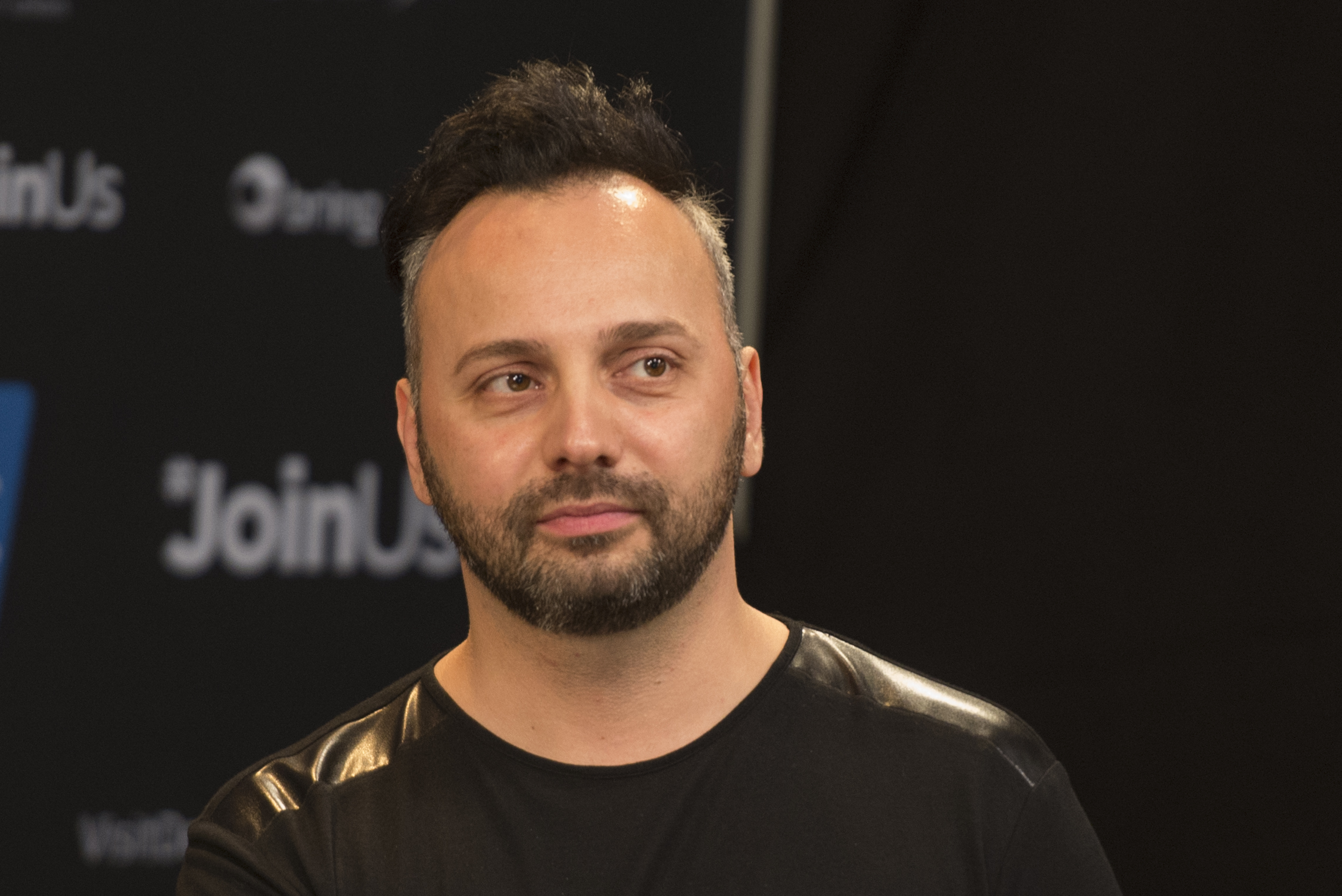 Ovi from Paula Seling and Ovidiu Cernăuțeanu at a Meet & Greet during the Eurovision Song Contest 2014 Copenhagen. (Help translate this text)